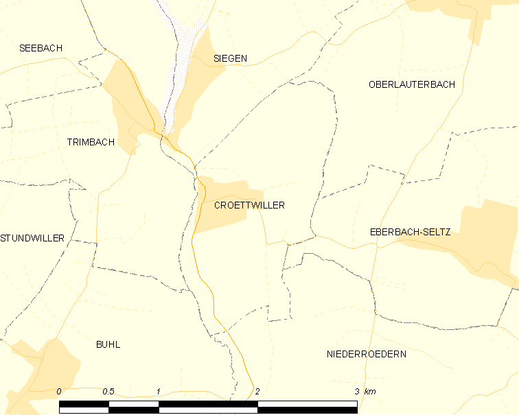 Map of French municipality